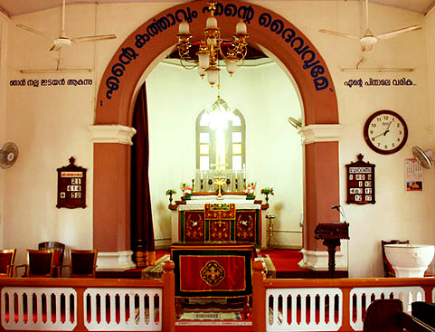 Madbaha and Thronos of a Marthoma Syrian Church.(Niranam Jerushalem Church)